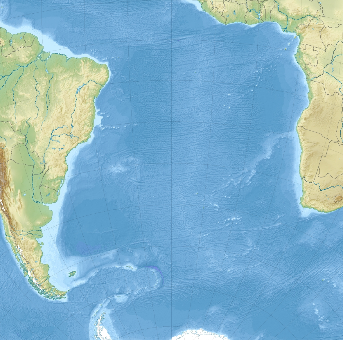 Relief location map of South_Atlantic_Ocean. Projection: Lambert azimuthal equal-area projection. Area of interest: N: 10.0° N S: -70.0° N W: -60.0° E E: 20.0° E Projection center: NS: -30.0° N WE: -20.0° E GMT projection: -JA-20.0/-30.0/180/19.998266666666666c GMT region: -R-101.75576886232234/-51.72069985658921/20.062665960105004/15.049750517347888r GMT region for grdcut: -R-102.0/-74.0/62.0/16.0r Relief: SRTM30plus. Made with Natural Earth. Free vector and raster map data @ .